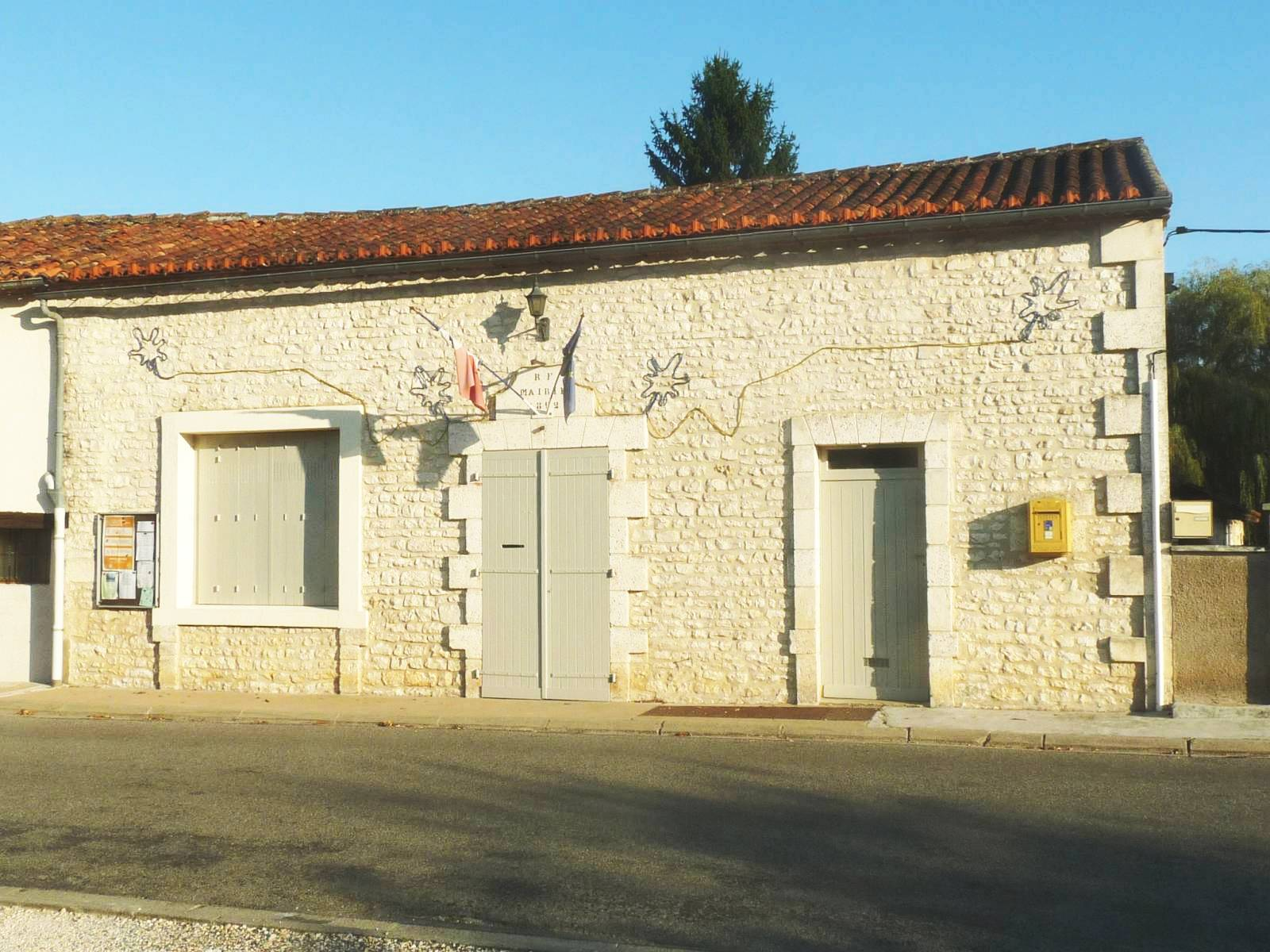 town hall of Saint-Mary, Charente, SW France